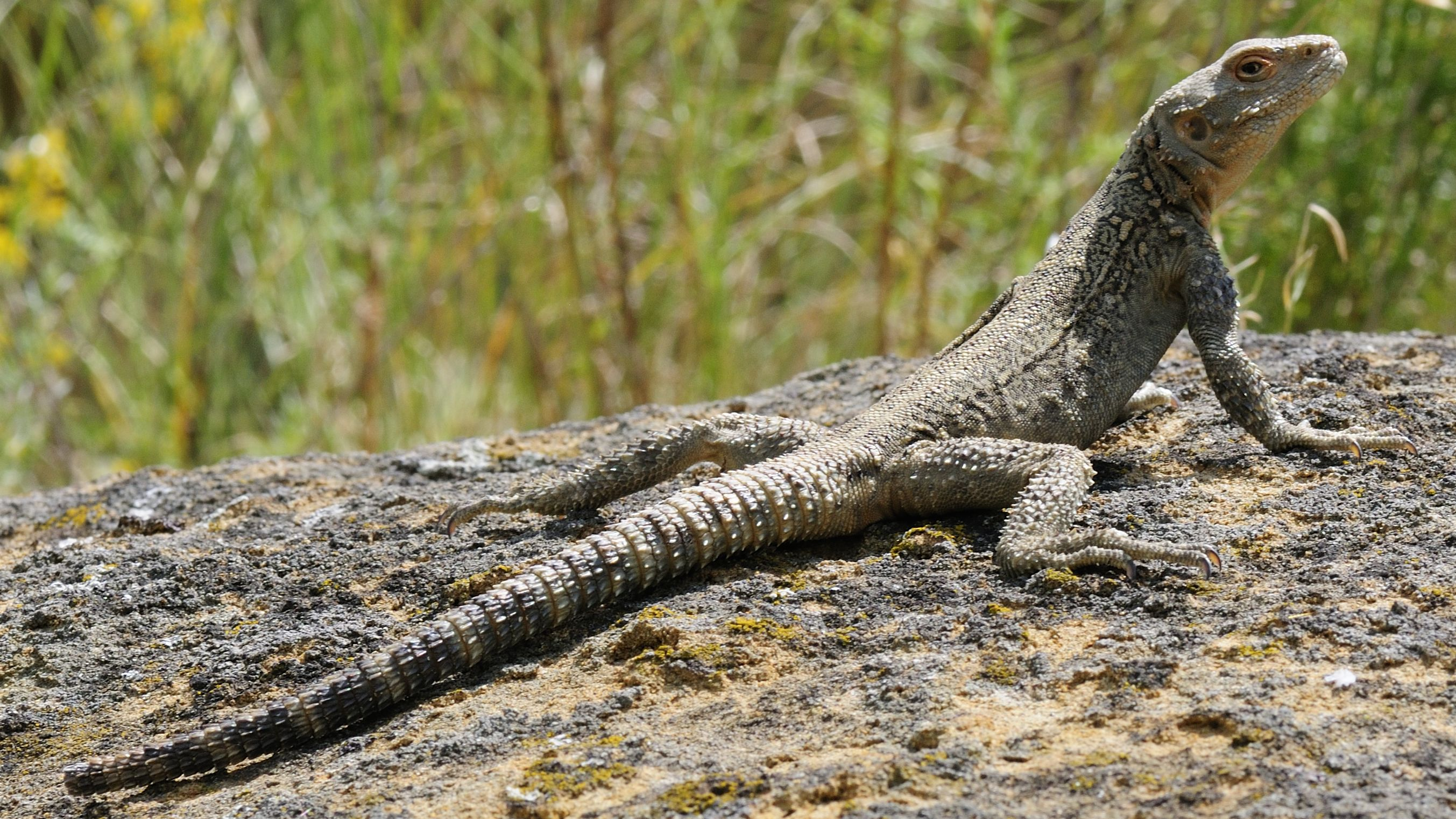 Laudakia caucasica in Dawit Garedscha (Georgia)